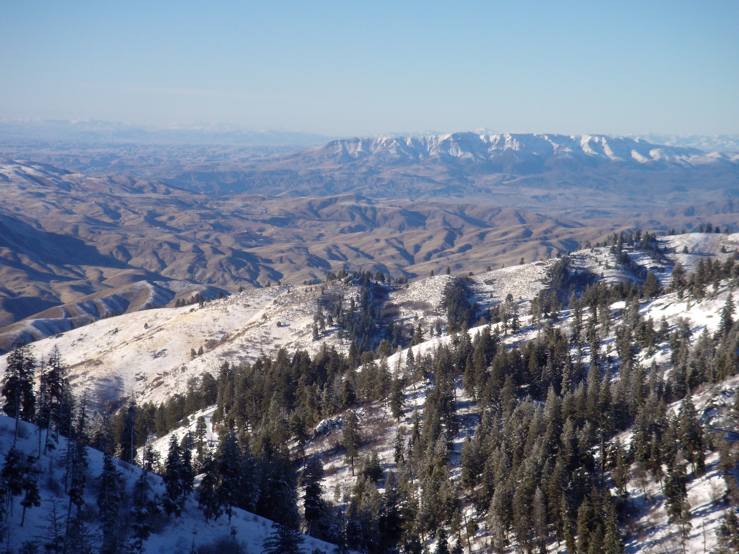 Bogus Basin back side